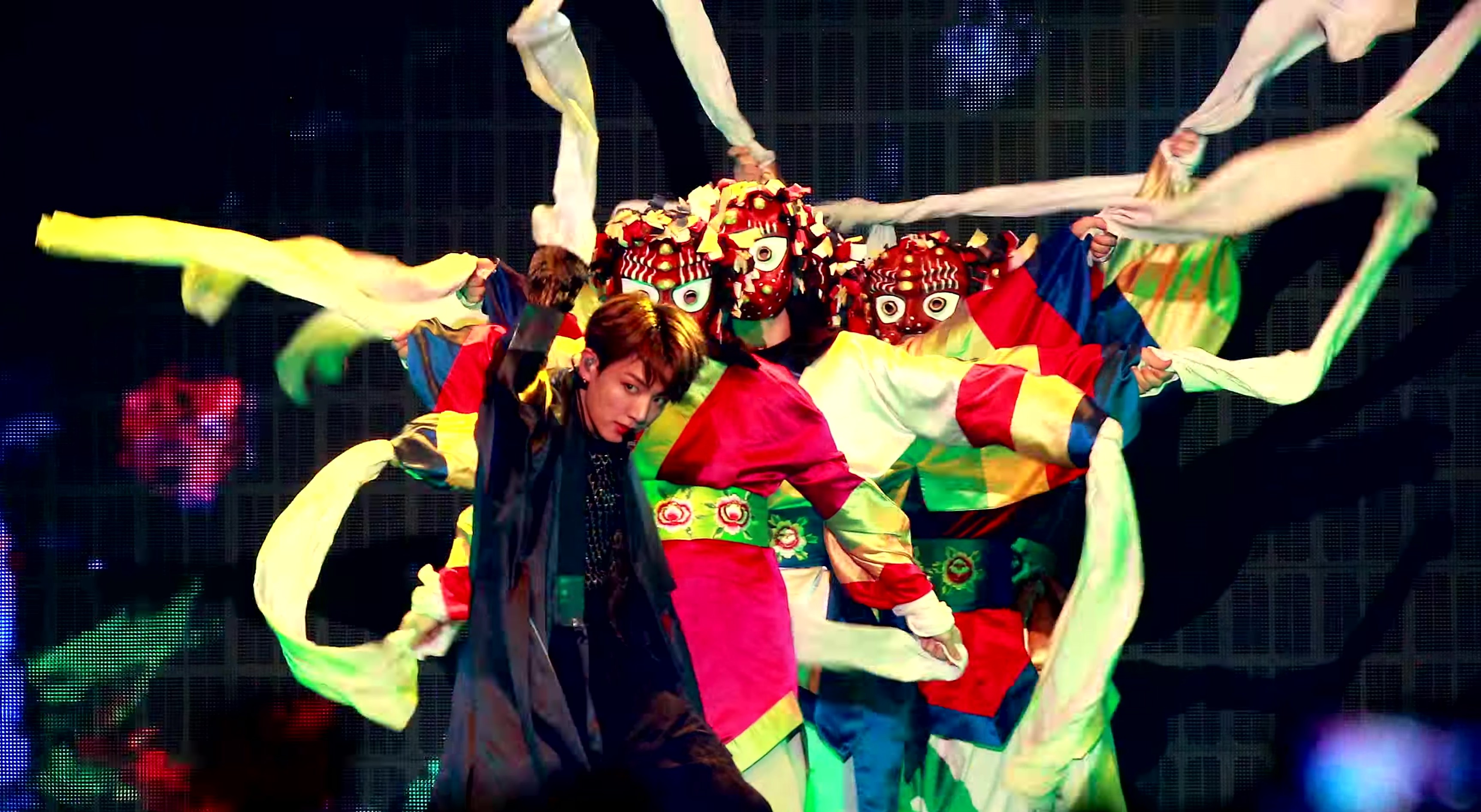 Jeon Jung-kook performing Talchum at MMA, 1 December 2018